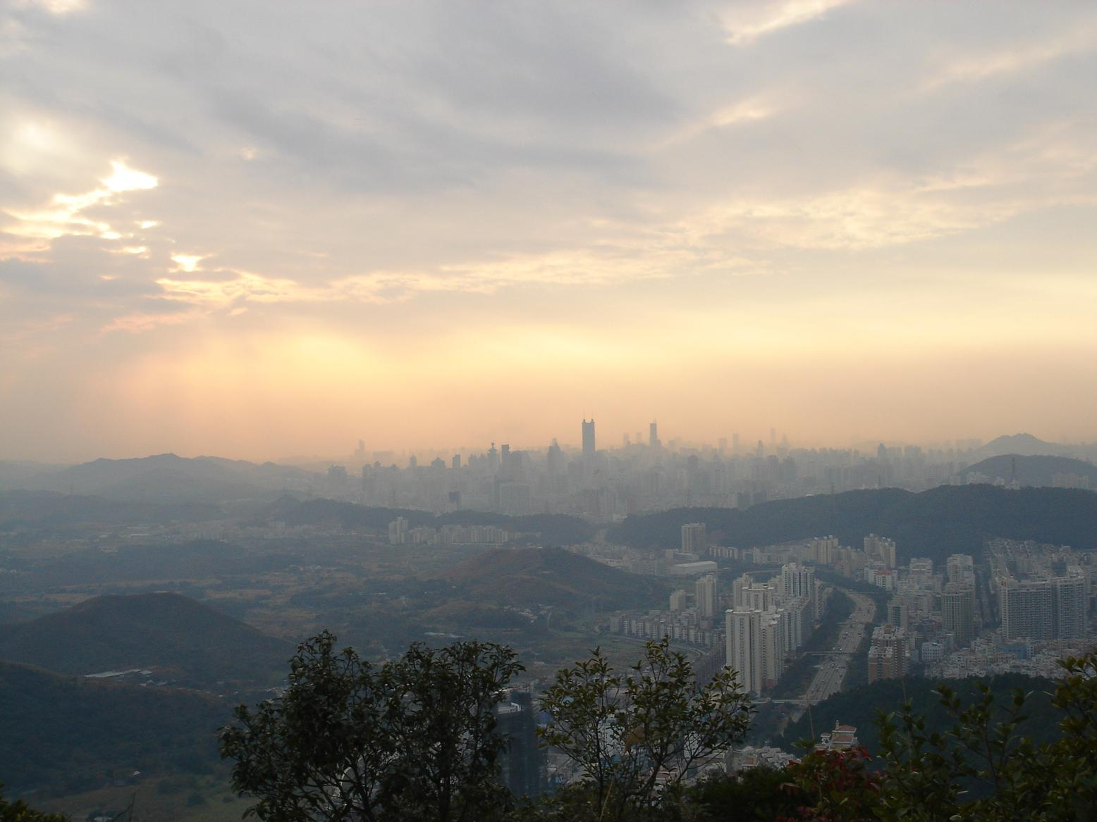 This picture of Shenzhen was taken in WuTongShan (梧桐山), or the WuTong Mountain, looking towards the direction of the city centre of LuoHu.